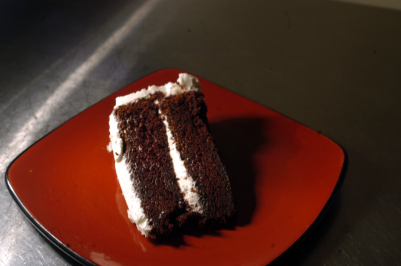 Devil's food cake with vanilla bean icecream.